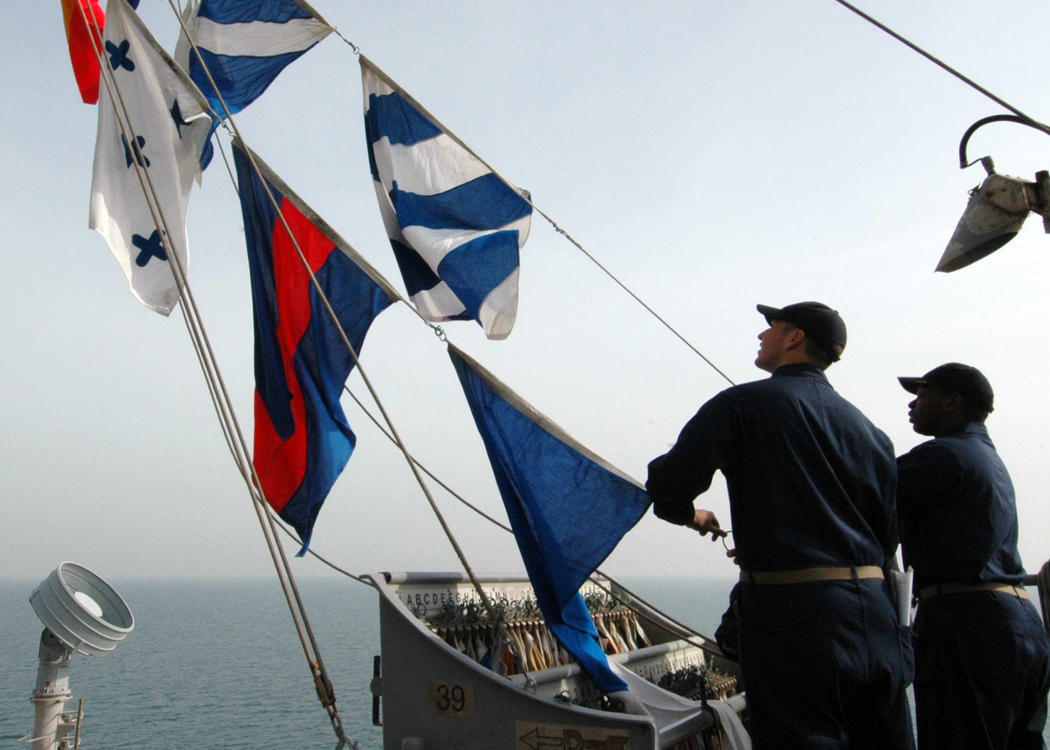 PERSIAN GULF (Feb. 10, 2009) Ensign Michael Carter, left, and Chief Quartermaster Melvin Prescott hoist flags during a drill aboard the amphibious dock landing ship USS Carter Hall (LSD 50). Carter Hall is deployed as part of the Iwo Jima Amphibious Ready Group supporting maritime security operations in the U.S. 5th Fleet area of responsibility. (U.S. Navy photo by Mass Communication Specialist 2nd Class Flordeliz Valerio/Released)